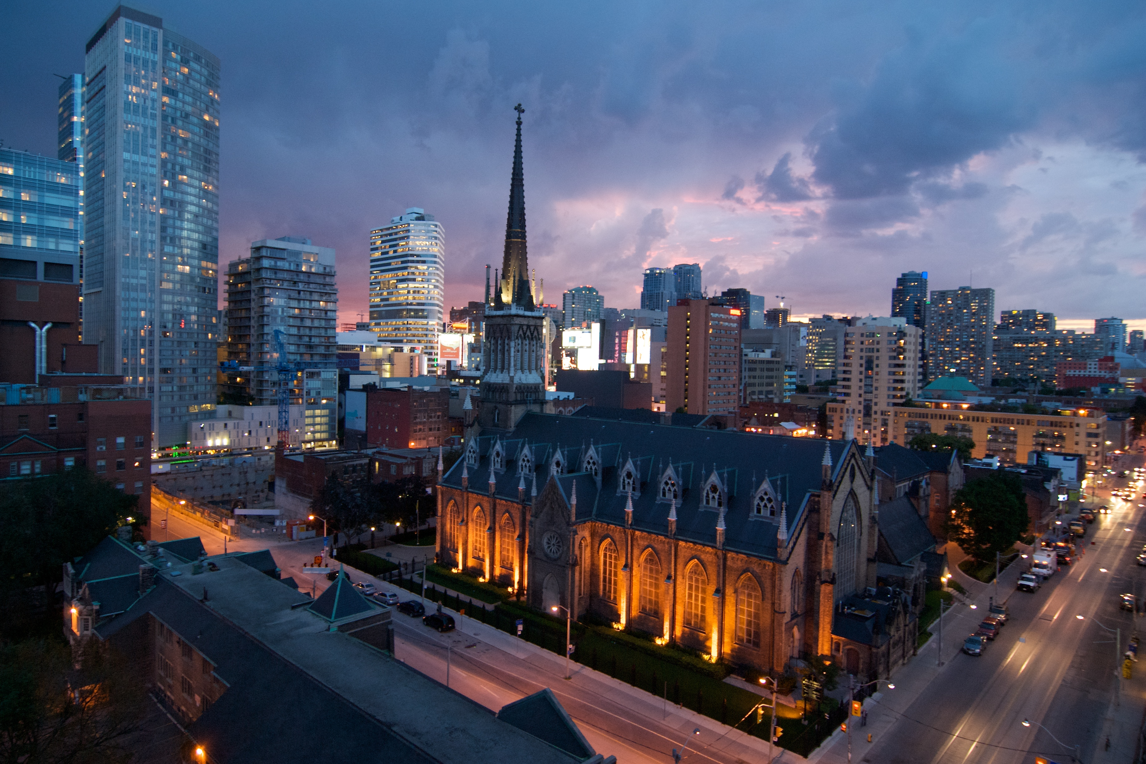 From my balcony. Tokina 12-24.